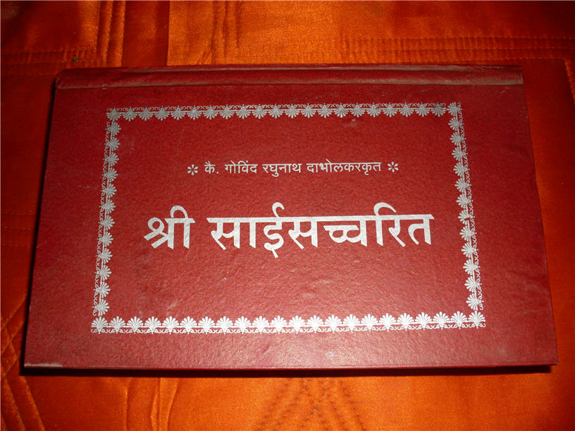 Shree Sai SatCharitra - Holy Book